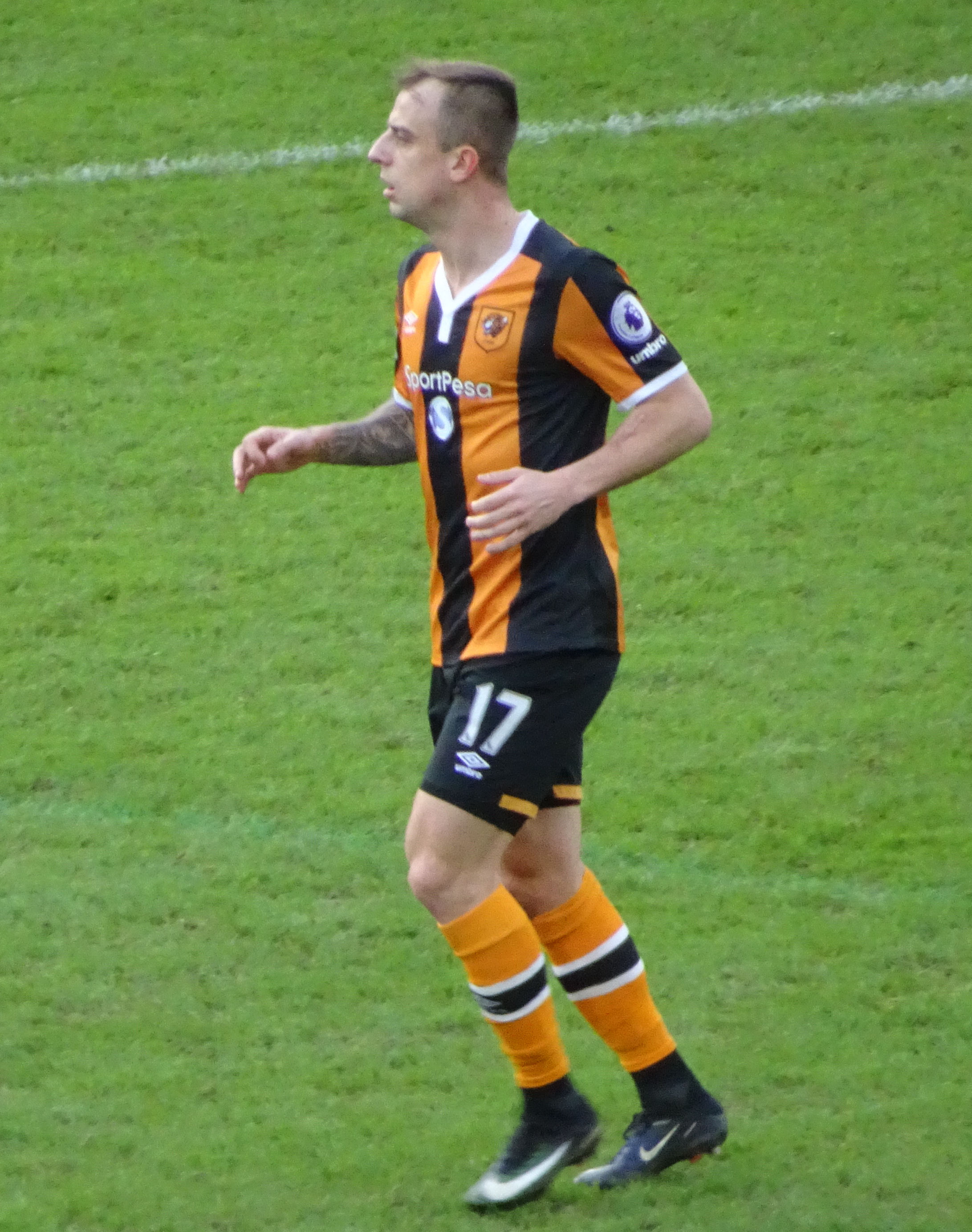 Kamil Grosicki on his Premier League debut for Hull City against Liverpool on 4 February 2017